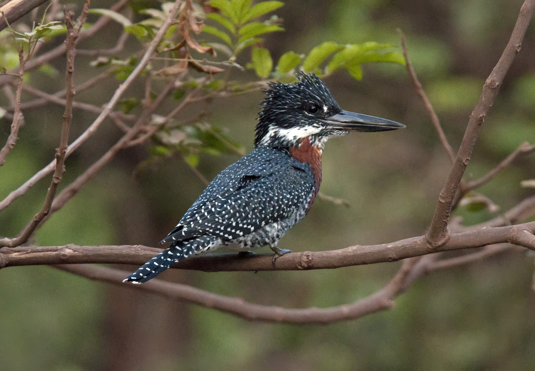 A male Giant Kingfisher, Ngorongoro crater, Tanzania, East Africa.